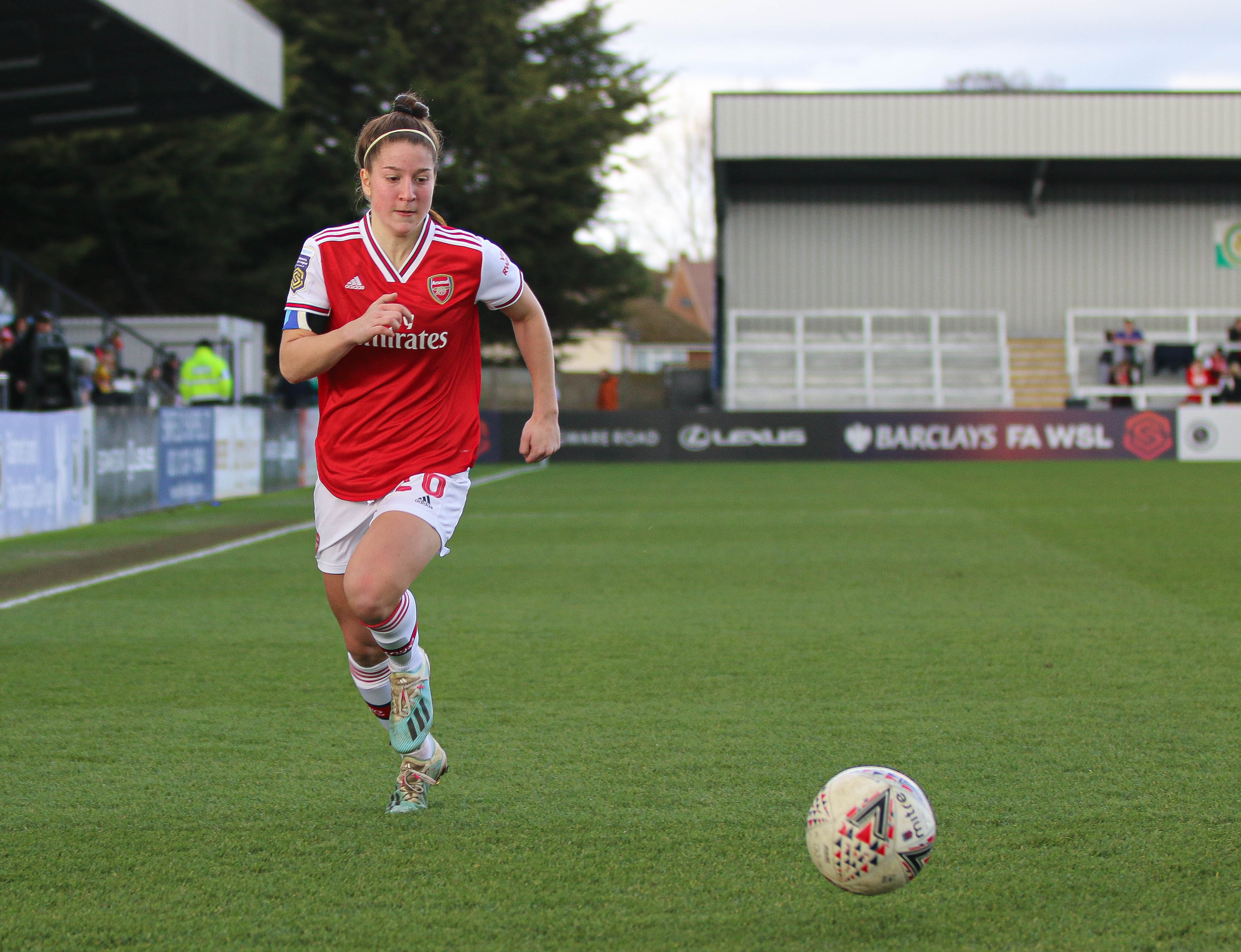 Arsenal WFC – Lewes L.F.C., 23 February 2020